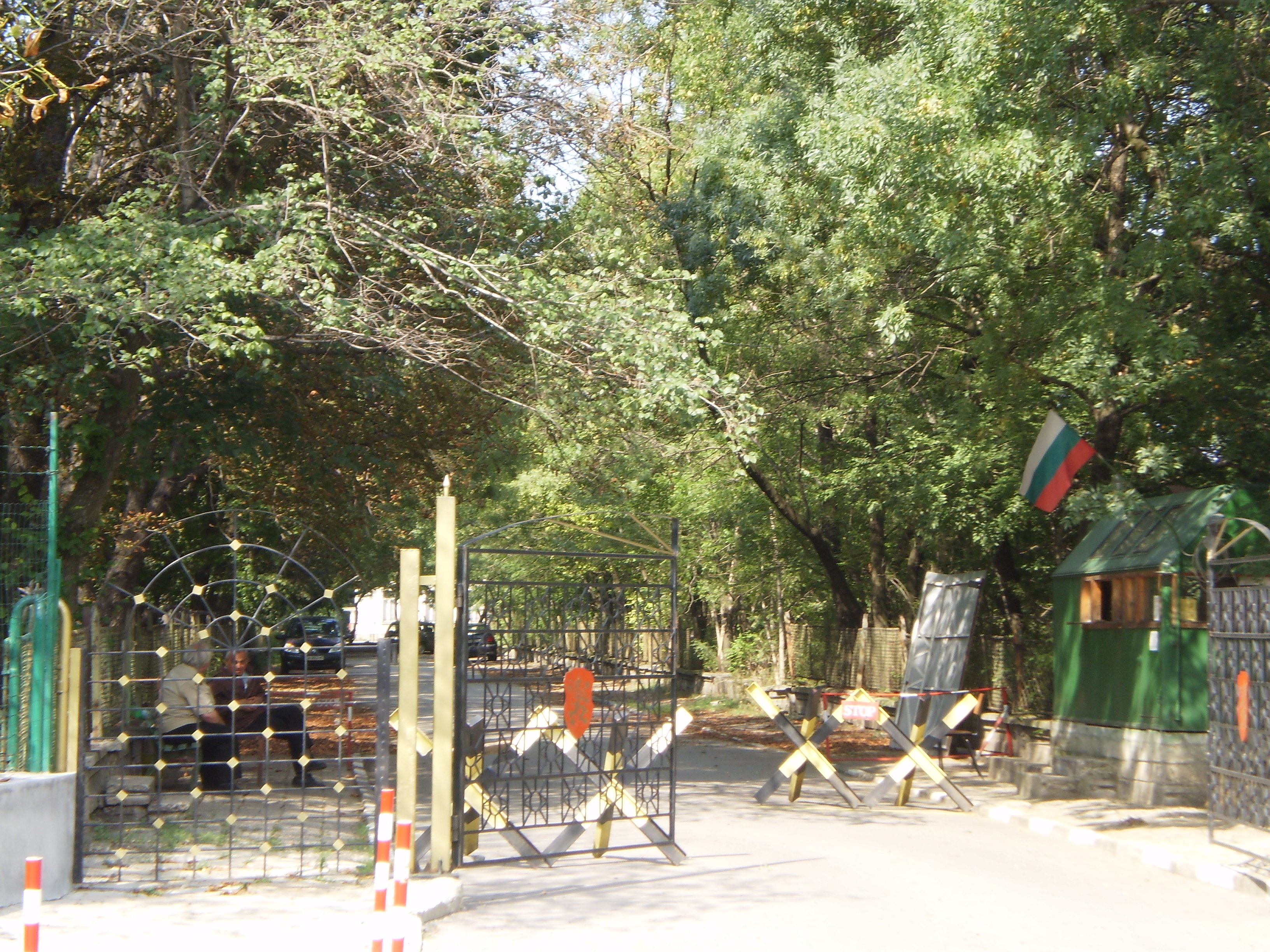 The side entrance of Georgi Rakosvski National Military Academy in Sofia, Bulgaria